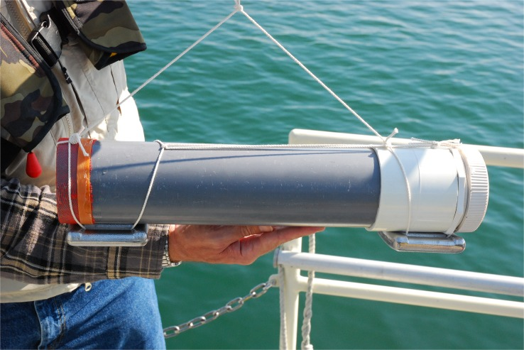 Collecting from Lake Biwa. Light traps used for collecting samples from deep parts of the lake (Photo R. Smith, Lake Biwa Museum).